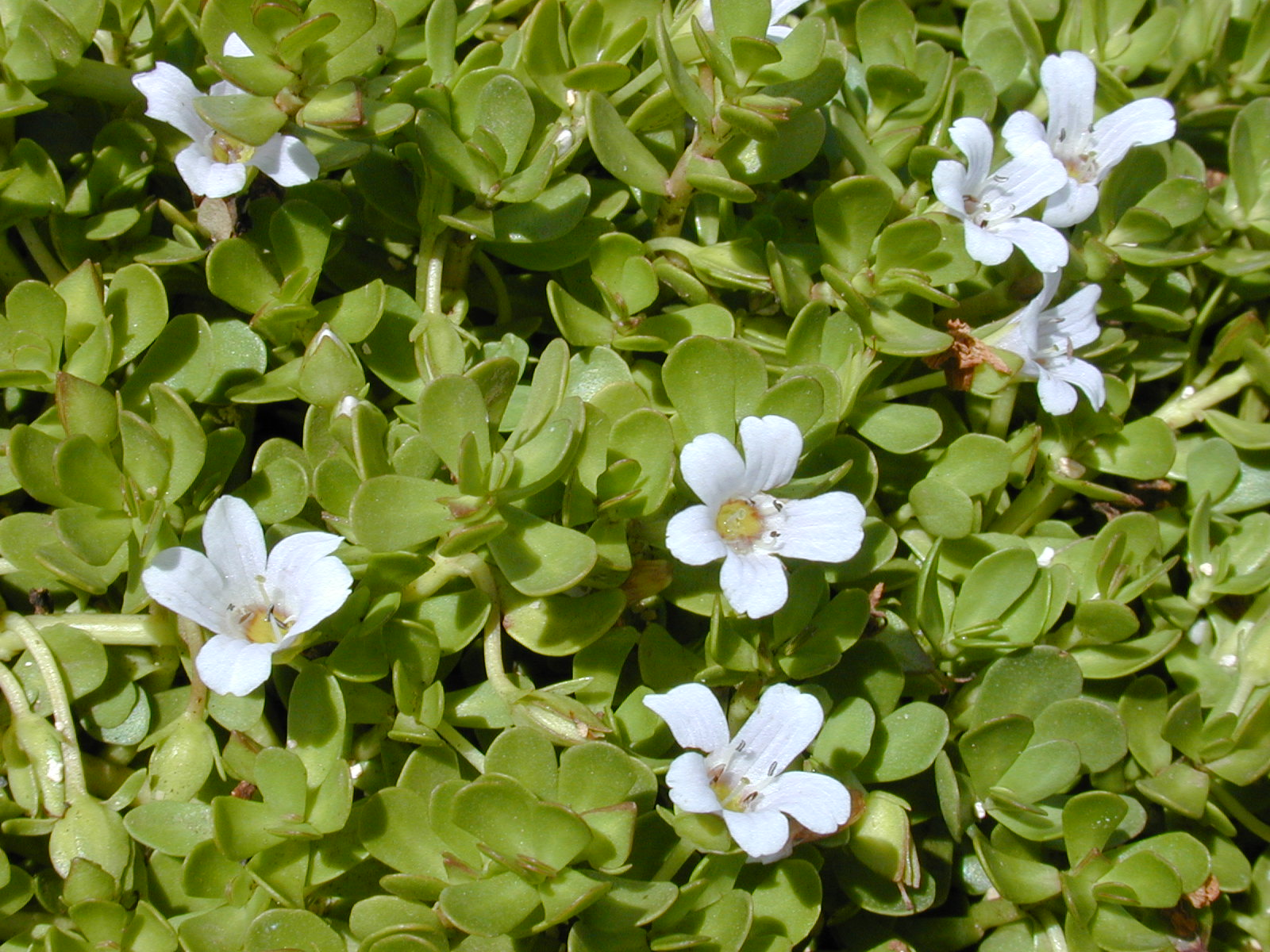 Bacopa monnieri (flowers and leaves). Location: Maui, Kanaha Beach stream outlet